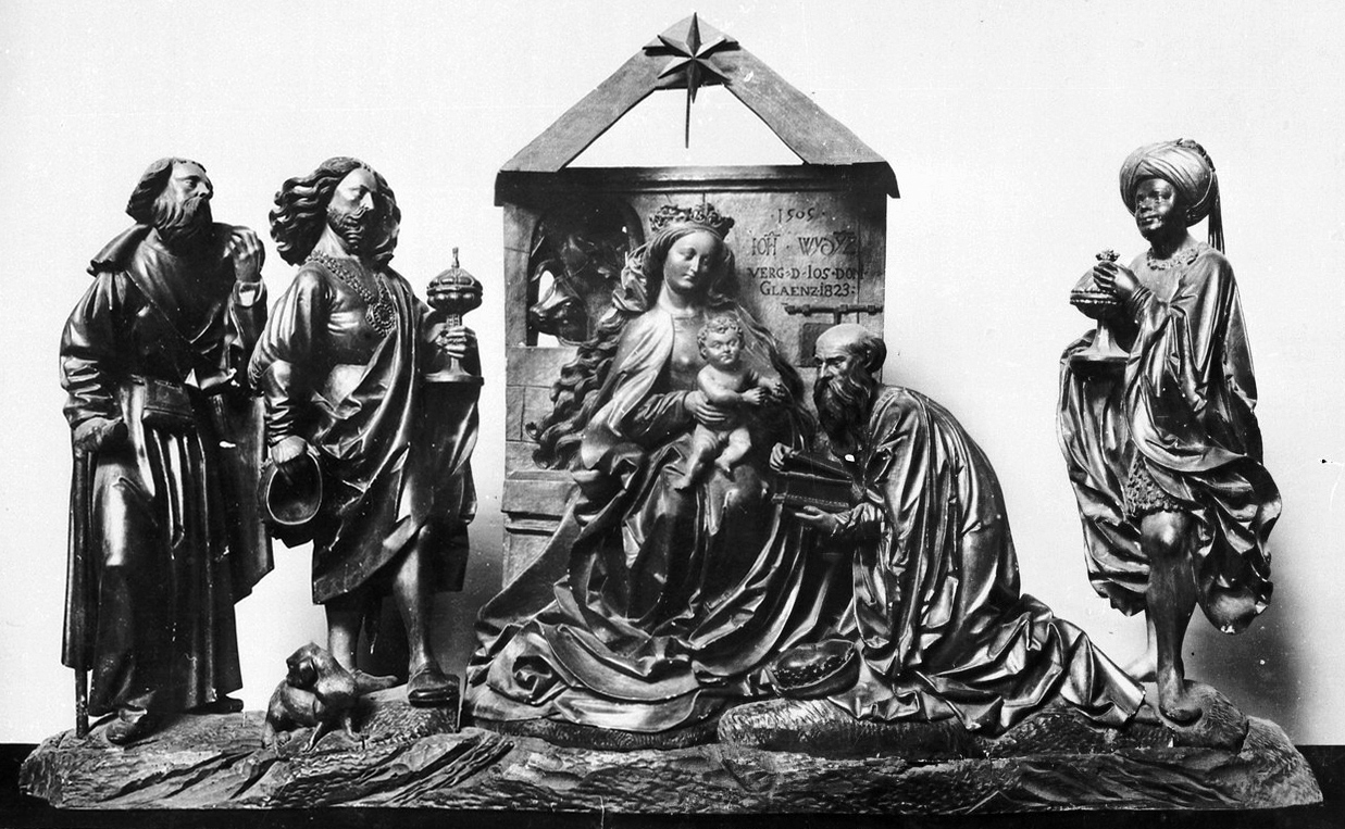 Wooden figures of the Three-Kings-Altar in the Freiburg Minster from 1505 (from left: Joseph, Melchior, Maria with Jesus, Kaspar, Balthasar). Carver Johann Wydyz, sponsor chancellor Konrad Stürtzel von Buchheim, gold-plated by Joseph Glänz in 1823, photograph about 1910.